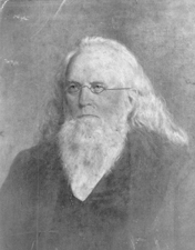 Portrait of US Senator Sidney Breese of Illinois